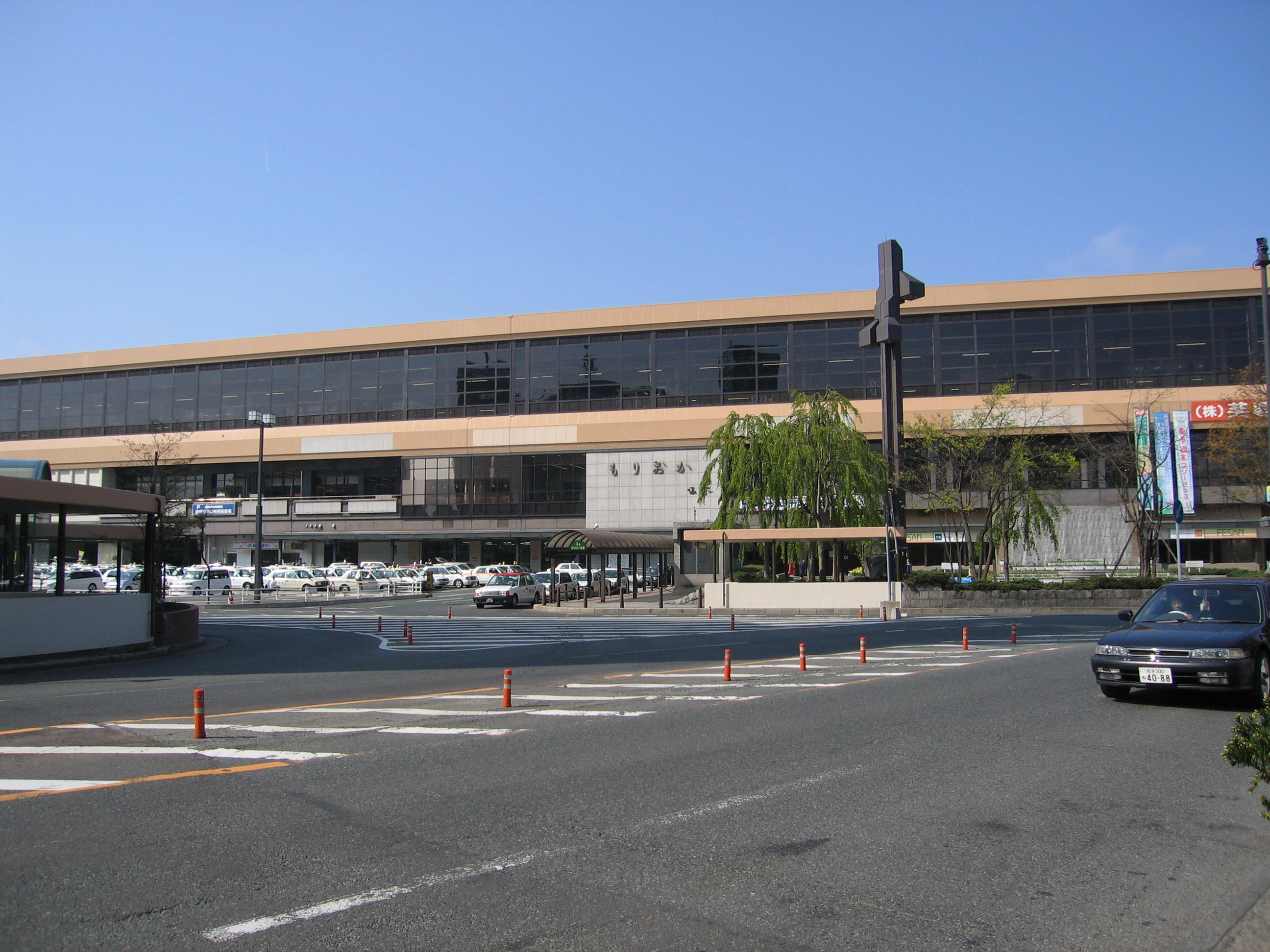 東日本旅客鉄道・盛岡駅 Morioka Station of JR East.